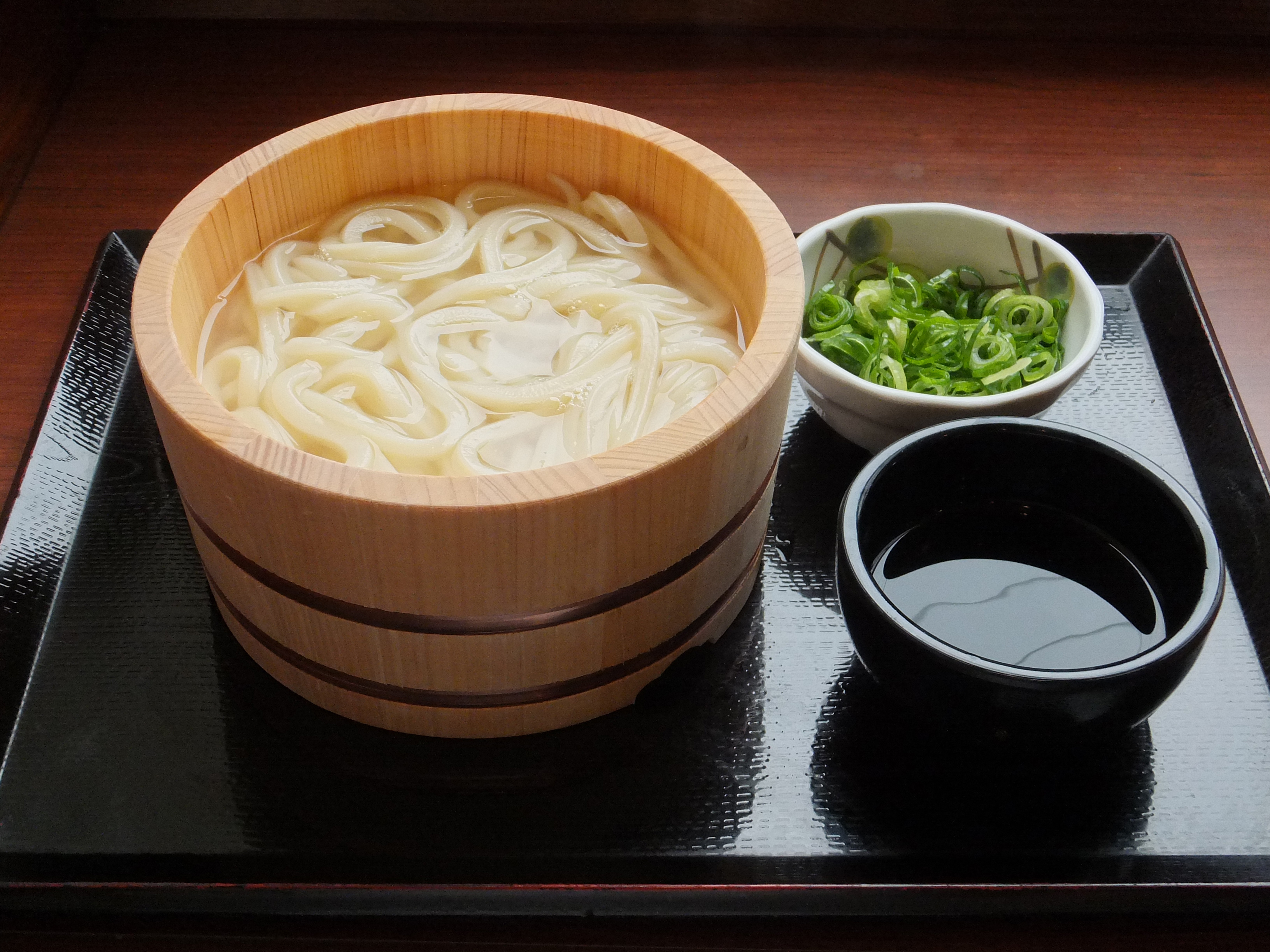 Kamaage udon (釜揚げうどん), at Marugame Seimen (丸亀製麺)